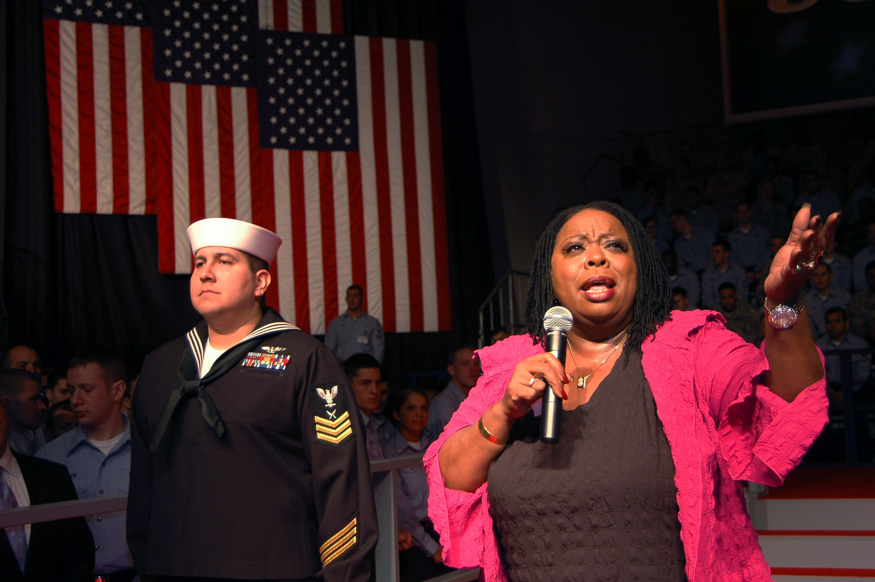 Yokosuka, Japan (Feb. 21, 2007) - Singer and performer Carol Woods sings to service members in the hangar bay aboard USS Kitty Hawk (CV 63) prior to the visit by Vice President Dick Cheney. During his speech, Cheney thanked the troops for their support of the global war on terrorism. Cheney is in Japan during a week-long tour to the Pacific to strengthen alliances with Japan and Australia. U.S. Navy photo by Mass Communication Specialist Seaman Kyle D. Gahlau (RELEASED)